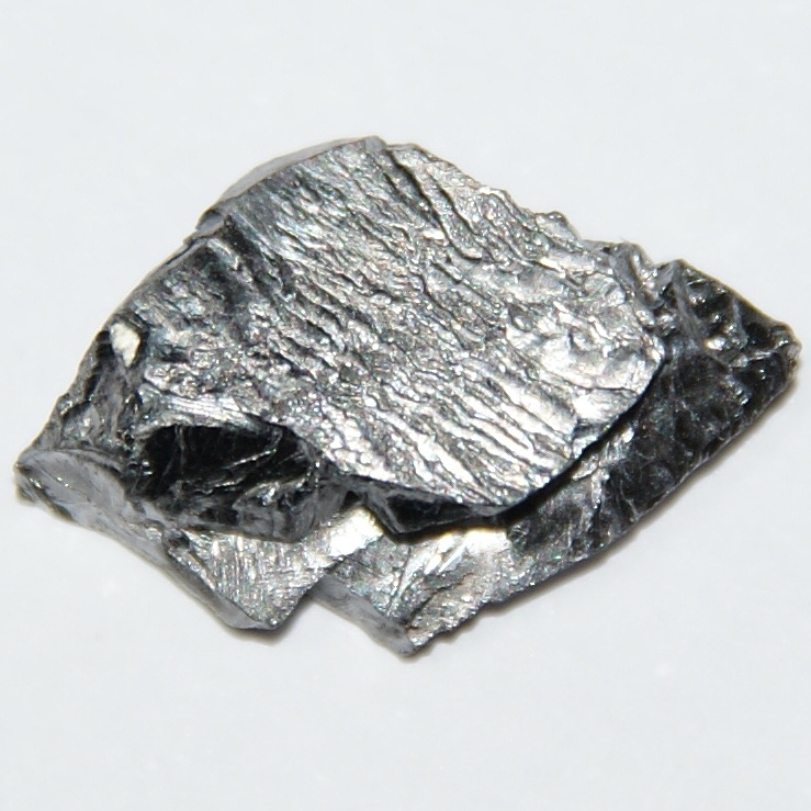 Piece of tantalum, 1 cm in size.